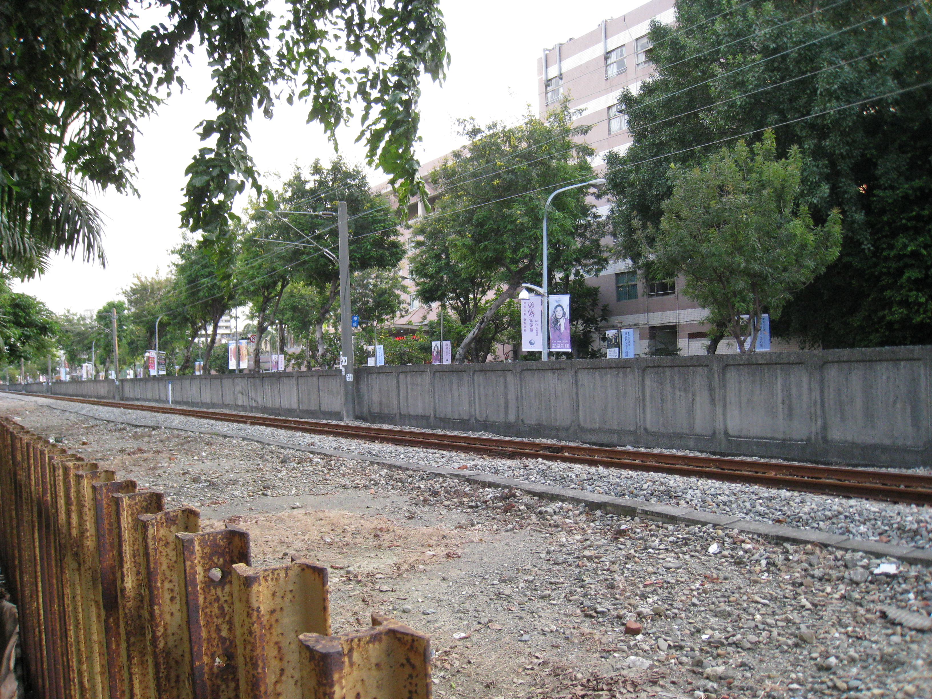 TRA Kaohsiung Port Line near of Kaisyuan Road, Lingya District, Kaohsiung City.